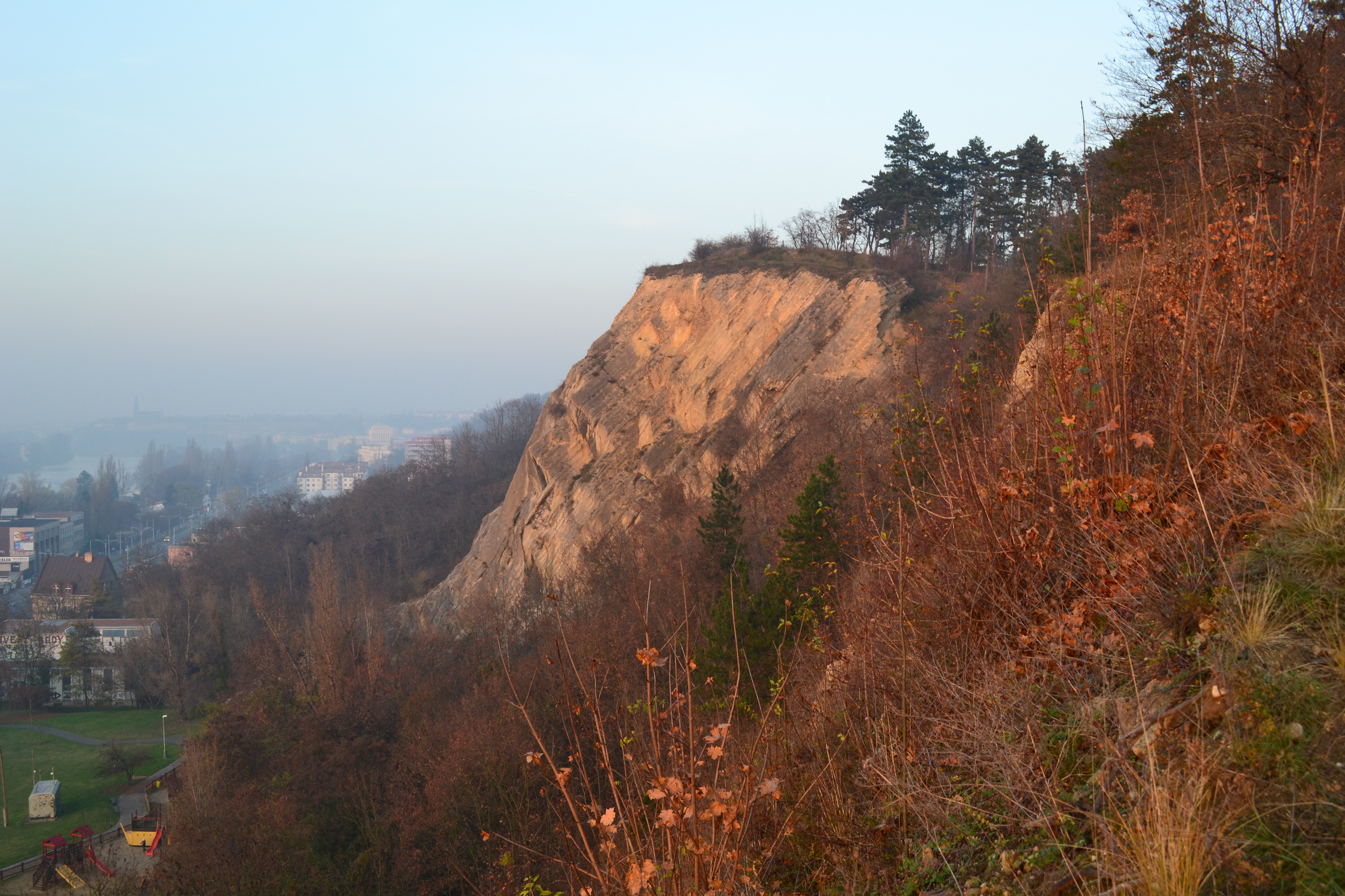 Natural monument Branické skály in Prague, Czech Republic